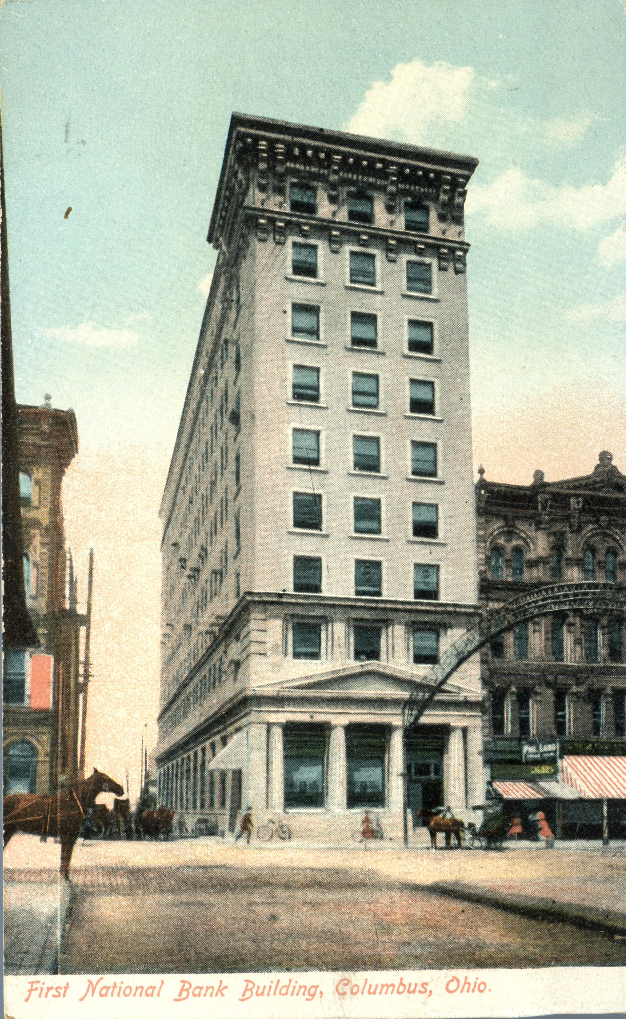 Persistent URL: Subject: Banks; Business districts; Cities & towns; Ohio--Columbus; miami digital collections; bowden postcard collection